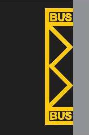 Road sign of the Czech Republic